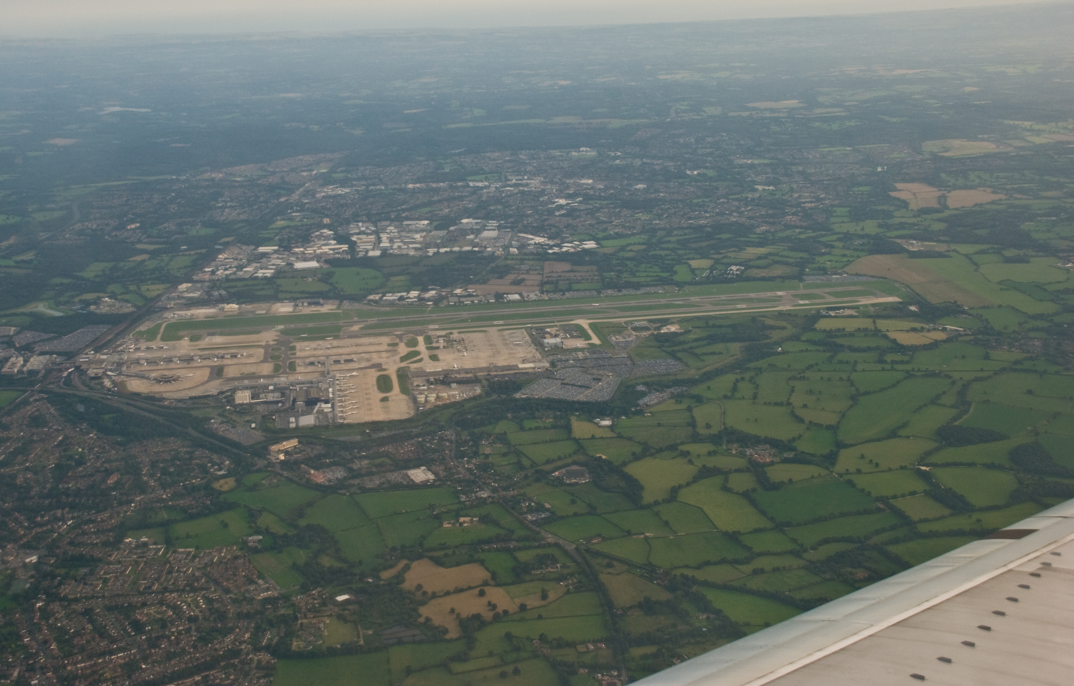 Departing for Vilnius in an Air Baltic 737